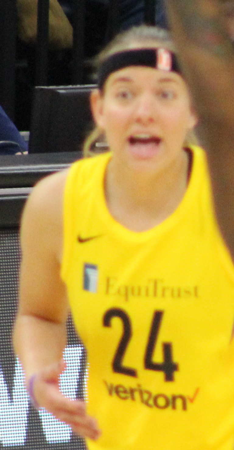 Sydney Wiese of the Los Angeles Sparks in 2018